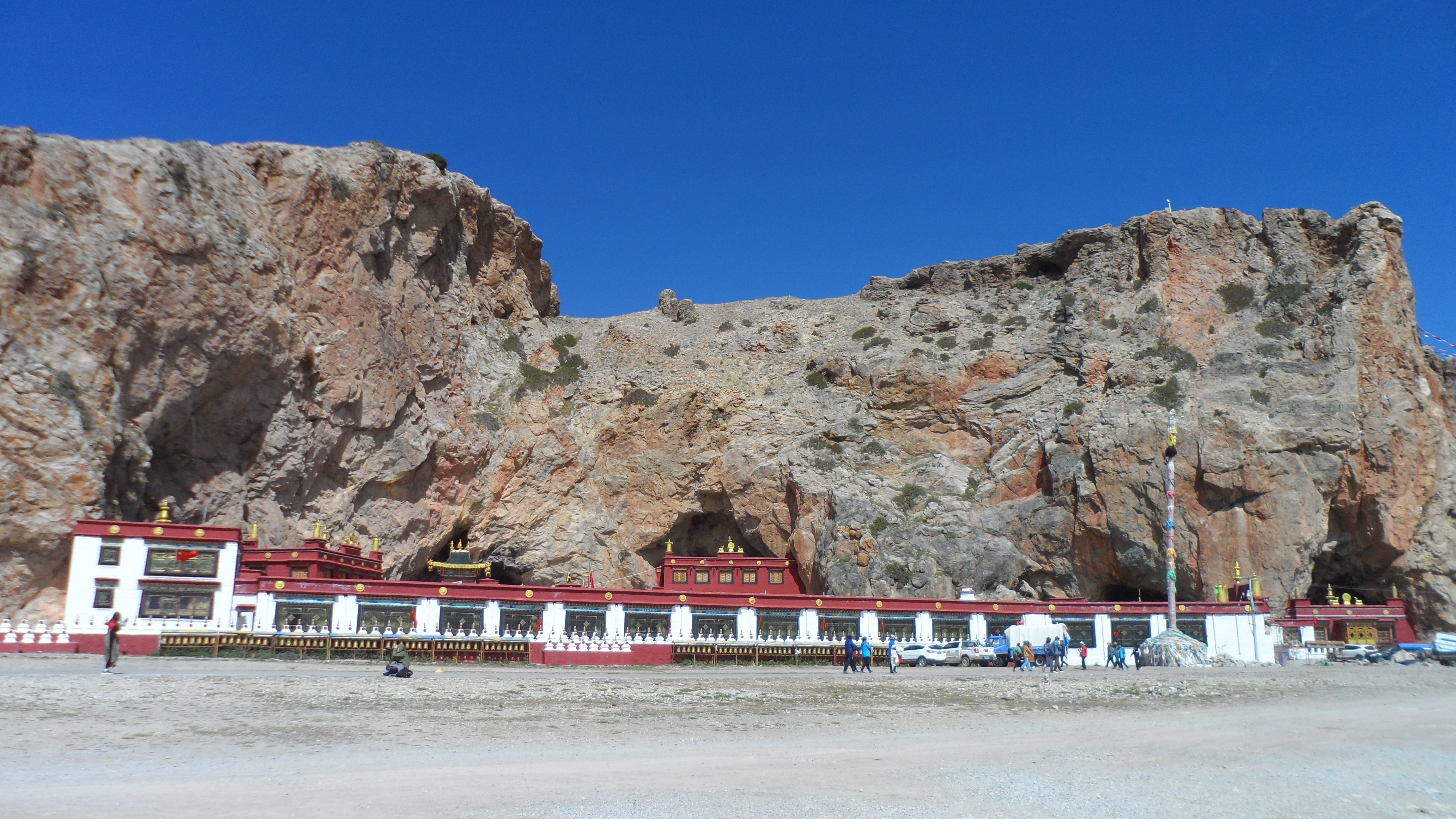 Namtso